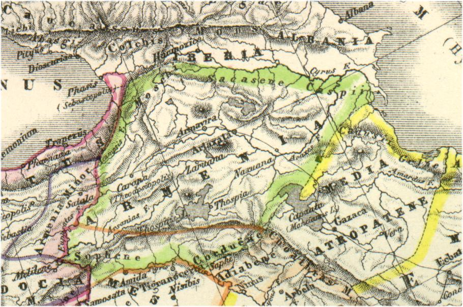 Map of Great Armenia from Atlas Antiquus by Heinrich Kiepert (Berlin, 1869, reprinted numerous times)